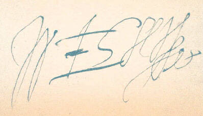 Purported autograph of William Shakespeare, not generally believed to be authentic.